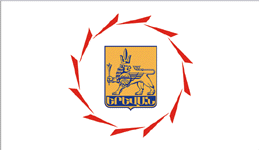 Flag of the city of Yerevan, capital of Armenia. Armenian Eternity sign